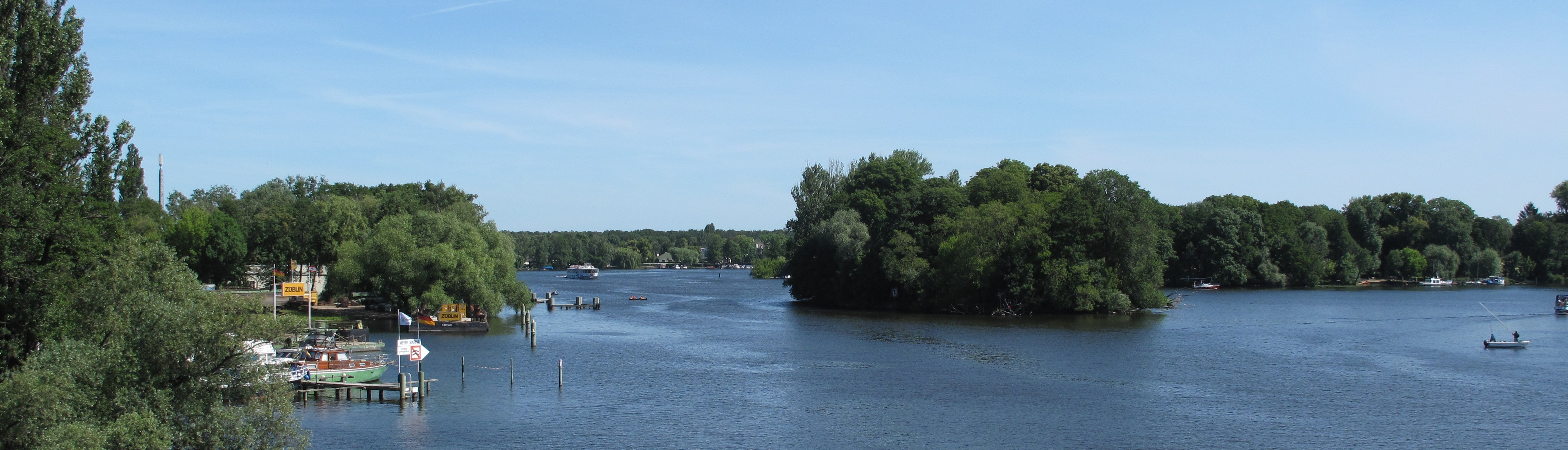 The Kleiner Wall (also called: Helgoland) is a river island of the Havel in Berlin, Borough Spandau, locality Hakenfelde. The isle covers about 4000 m². Line of sight to the northeast, on the left the western bank of the Havel. on the right the vastly larger isle Valentinswerder.